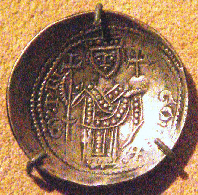 Gold Bezant, Hugh I Of Cyprus, 1205-1218